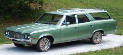 1972 AMC Matador Photo generously provided by owner.